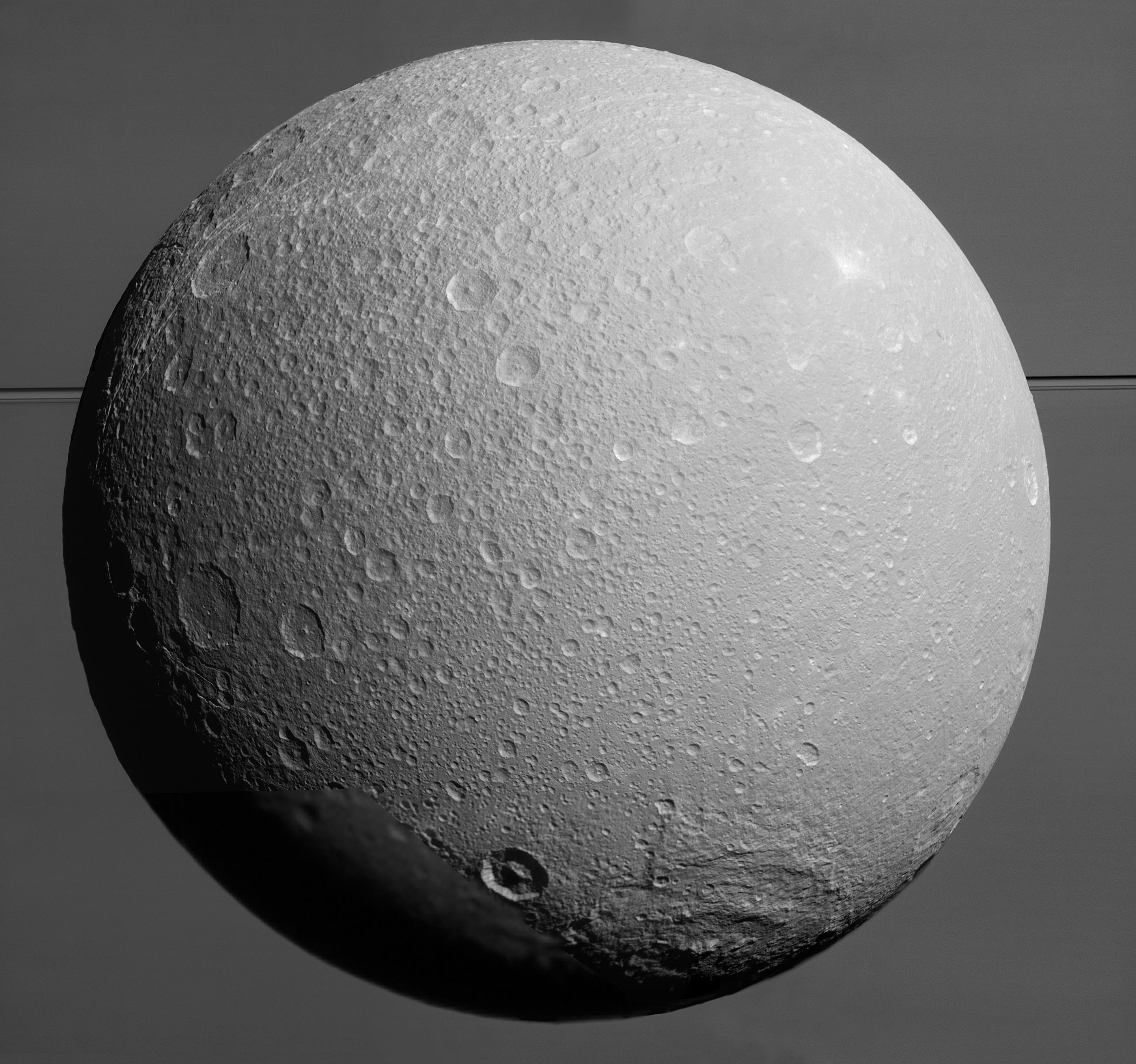 PIA19650: Imminent Approach to Dione This view from NASA's Cassini spacecraft looks toward Saturn's icy moon Dione, with giant Saturn and its rings in the background, just prior to the mission's final close approach to the moon on August 17, 2015. At lower right is the large, multi-ringed impact basin named Evander, which is about 220 miles (350 kilometers) wide. The canyons of Padua Chasma, features that form part of Dione's bright, wispy terrain, reach into the darkness at left. Imaging scientists combined nine visible light (clear spectral filter) images to create this mosaic view: eight from the narrow-angle camera and one from the wide-angle camera, which fills in an area at lower left. The scene is an orthographic projection centered on terrain at 0.2 degrees north latitude, 179 degrees west longitude on Dione. An orthographic view is most like the view seen by a distant observer looking through a telescope. North on Dione is up. The view was acquired at distances ranging from approximately 106,000 miles (170,000 kilometers) to 39,000 miles (63,000 kilometers) from Dione and at a sun-Dione-spacecraft, or phase, angle of 35 degrees. Image scale is about 1,500 feet (450 meters) per pixel. The Cassini mission is a cooperative project of NASA, ESA (the European Space Agency) and the Italian Space Agency. The Jet Propulsion Laboratory, a division of the California Institute of Technology in Pasadena, manages the mission for NASA's Science Mission Directorate, Washington. The Cassini orbiter and its two onboard cameras were designed, developed and assembled at JPL. The imaging operations center is based at the Space Science Institute in Boulder, Colorado. For more information about the Cassini-Huygens mission visit and The Cassini imaging team homepage is at